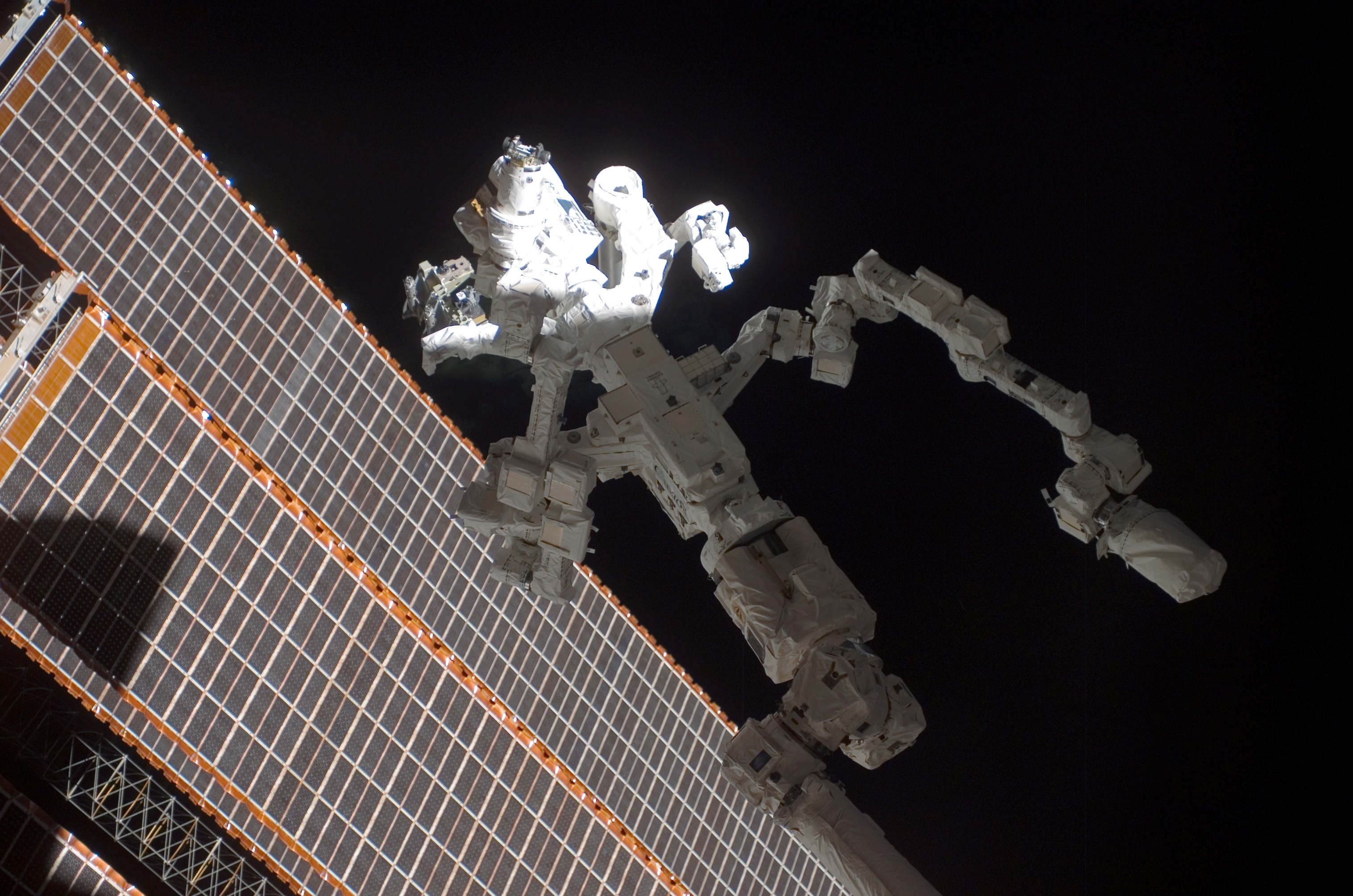 In the grasp of the station's robotic Canadarm2, Dextre, also known as the Special Purpose Dextrous Manipulator (SPDM), is featured in this image photographed by a crewmember on the International Space Station while Space Shuttle Endeavour is docked with the station.